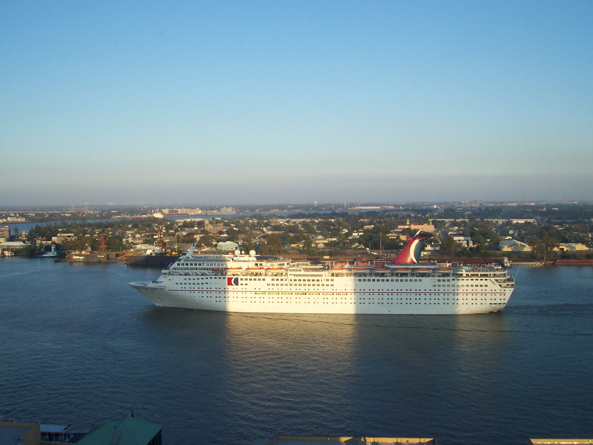 Cruise ship in the Mississippi River, New Orleans. Looking across the river towards the Algiers section; in background the Bywater section seen across bend in the river.